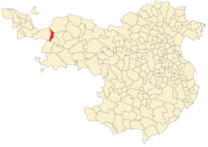 Planoles